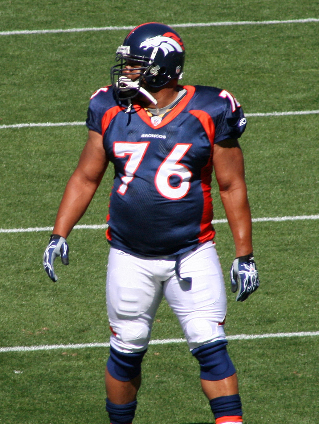 Jamal Williams, a player on the Denver Broncos American football team.